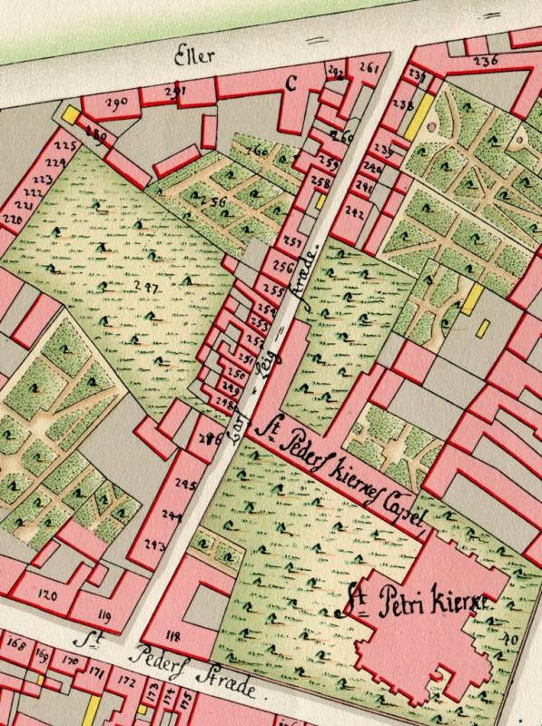 Detail showing Larslejstræde on Gedde's map of Copenhagen, Denmark